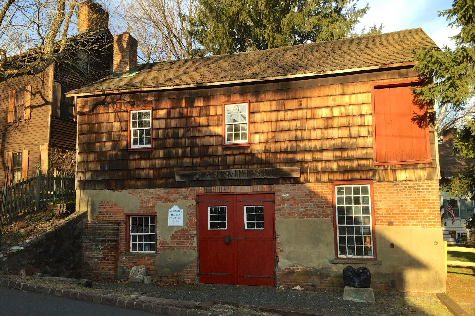 Blacksmith Shop in Millstone, Somerset County, NJ. Built circa 1740 date QS:P,+1740-00-00T00:00:00Z/9,P1480,Q5727902